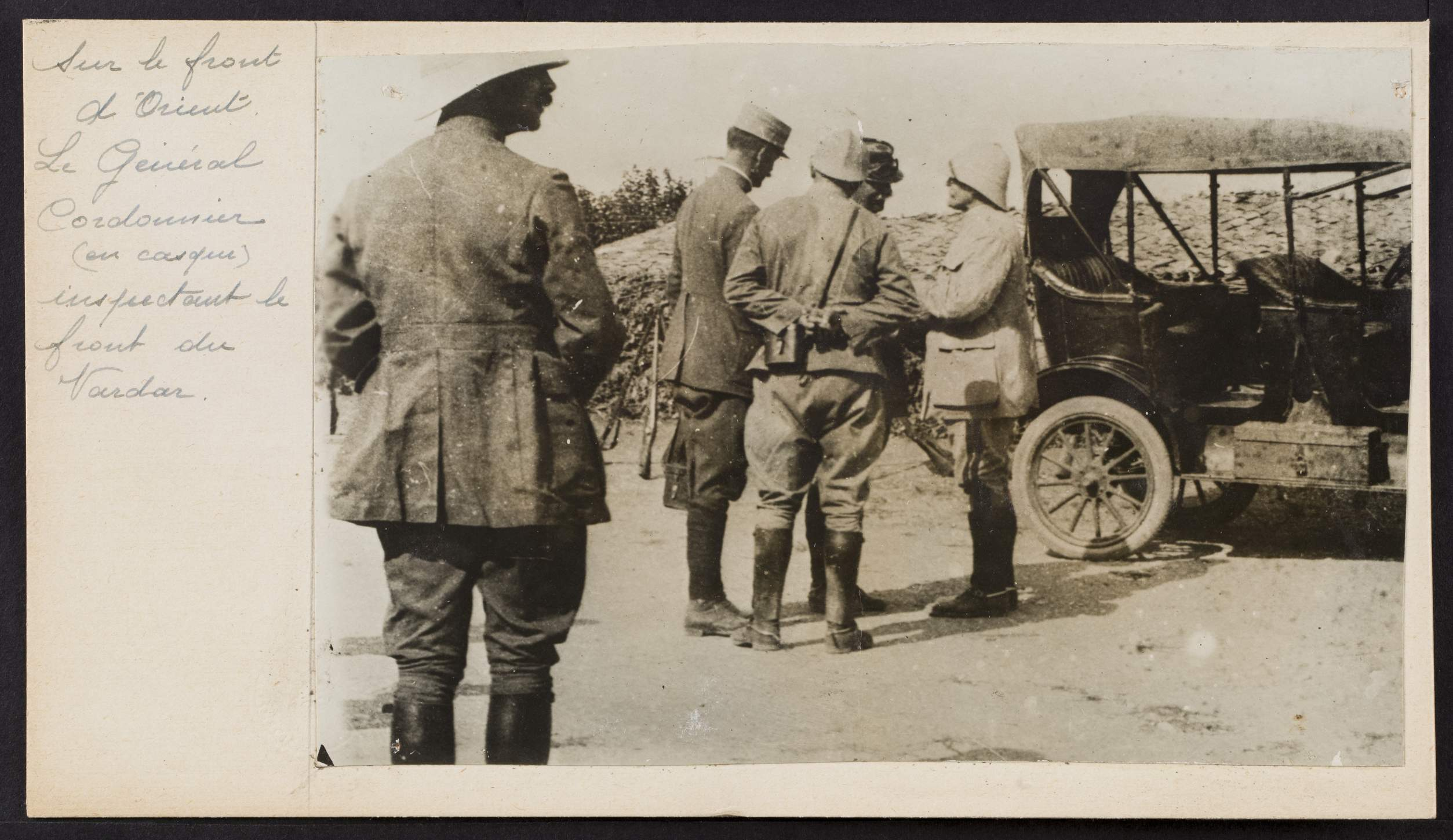 Le général Cordonnier inspectant le front du Vardar.